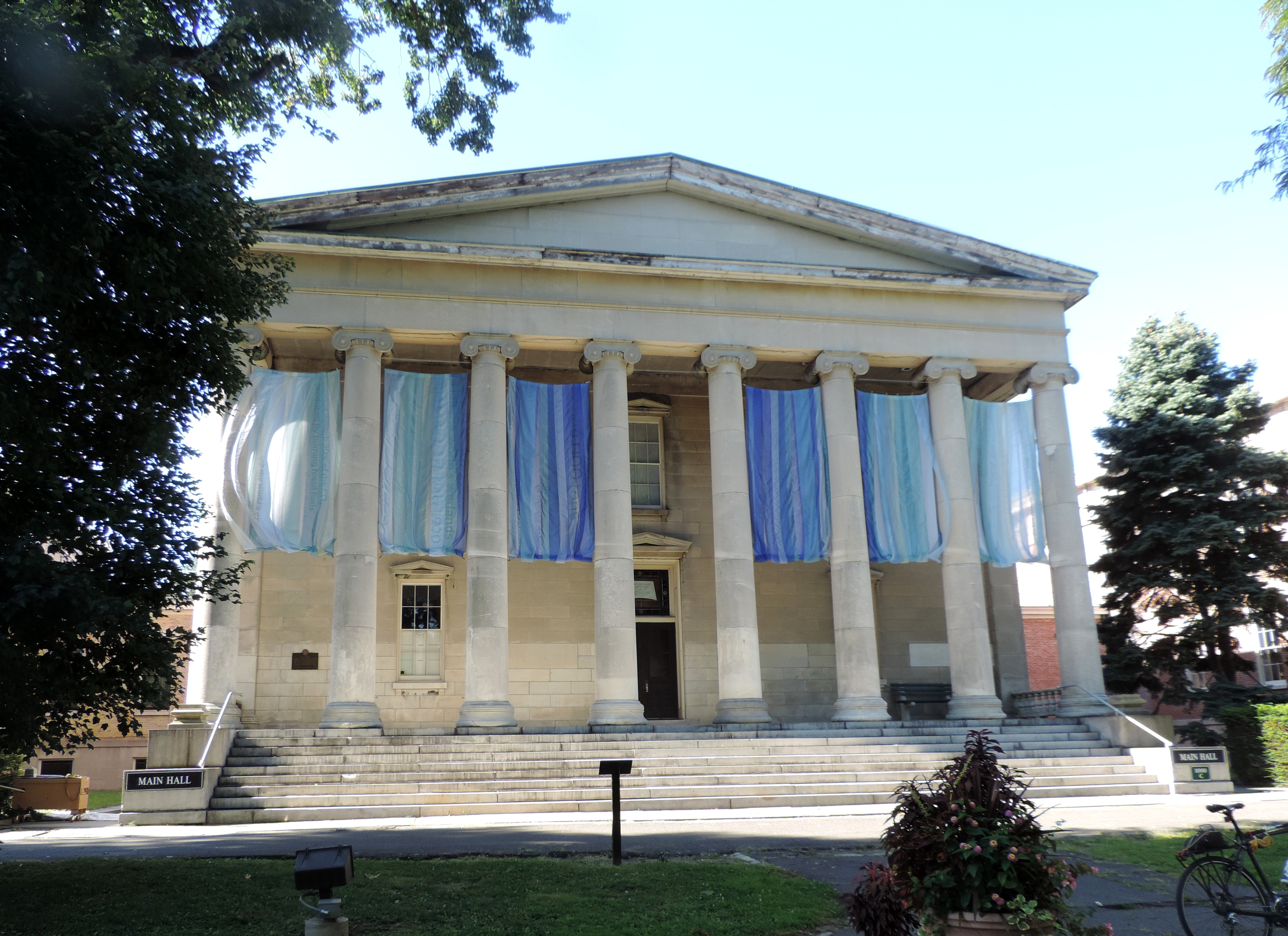 Looking southwest at main building on a sunny late morning.